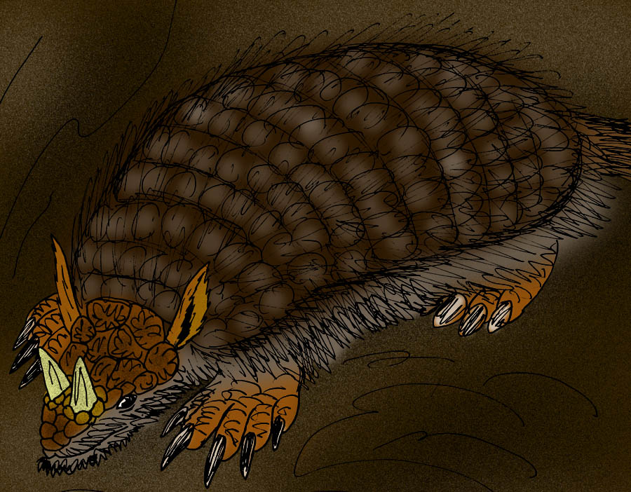 My reconstruction of the horned armadillo, Peltephilus ferox, of the Oligocene and Miocene of Argentina. (C) Stanton F. Fink